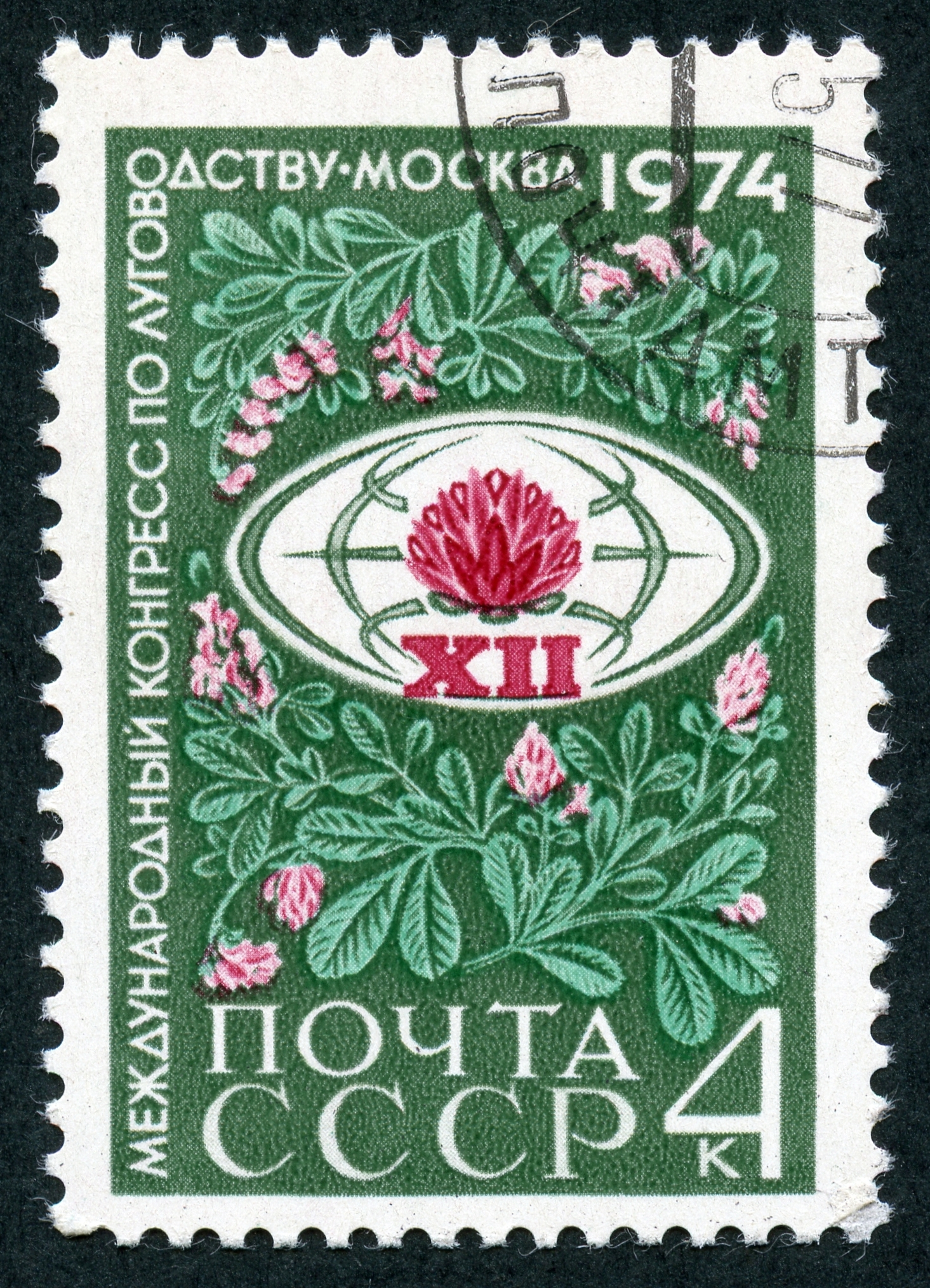 A USSR stamp